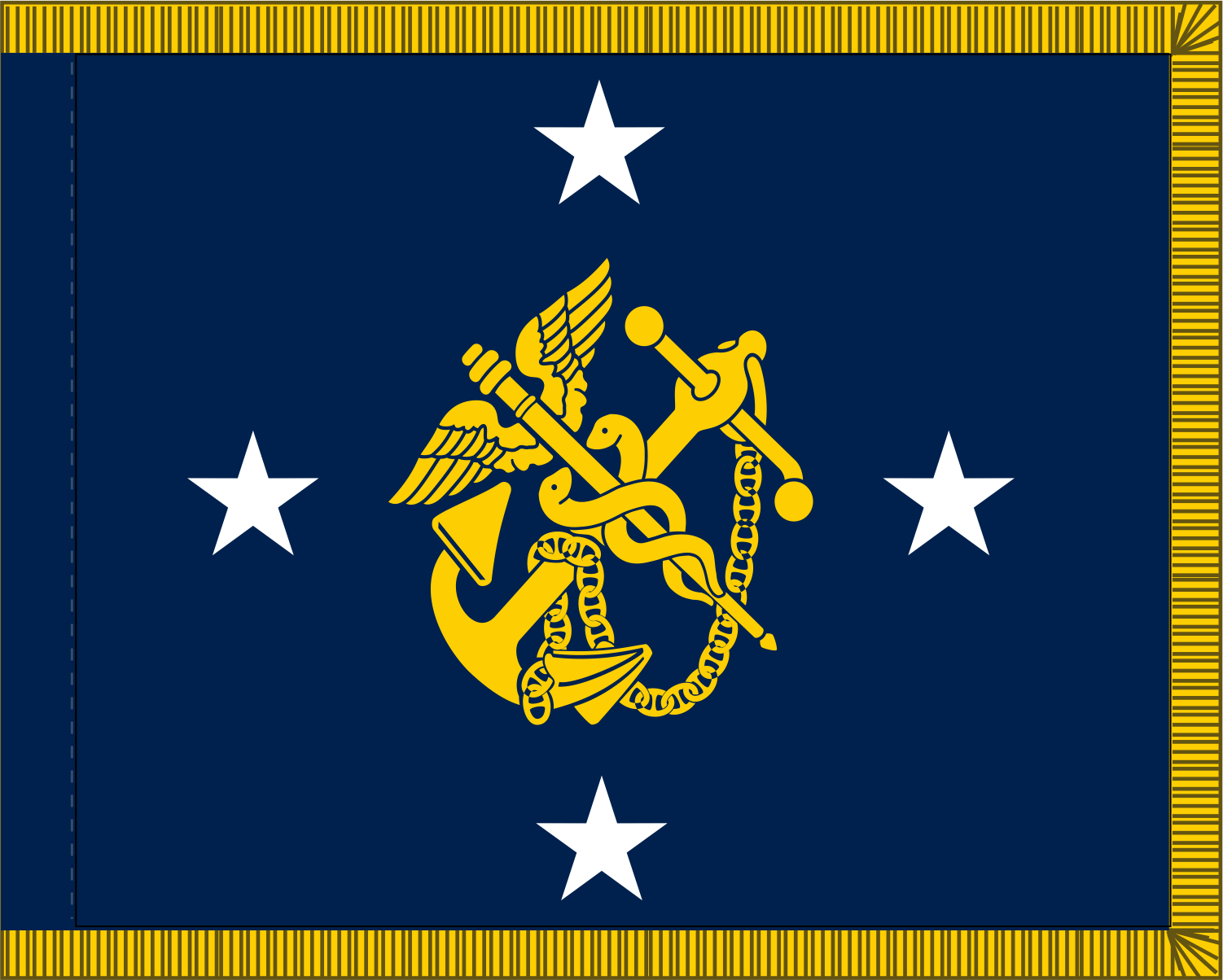 Flag of the Assistant Secretary for Health, U.S. Public Health Service Officer Corps